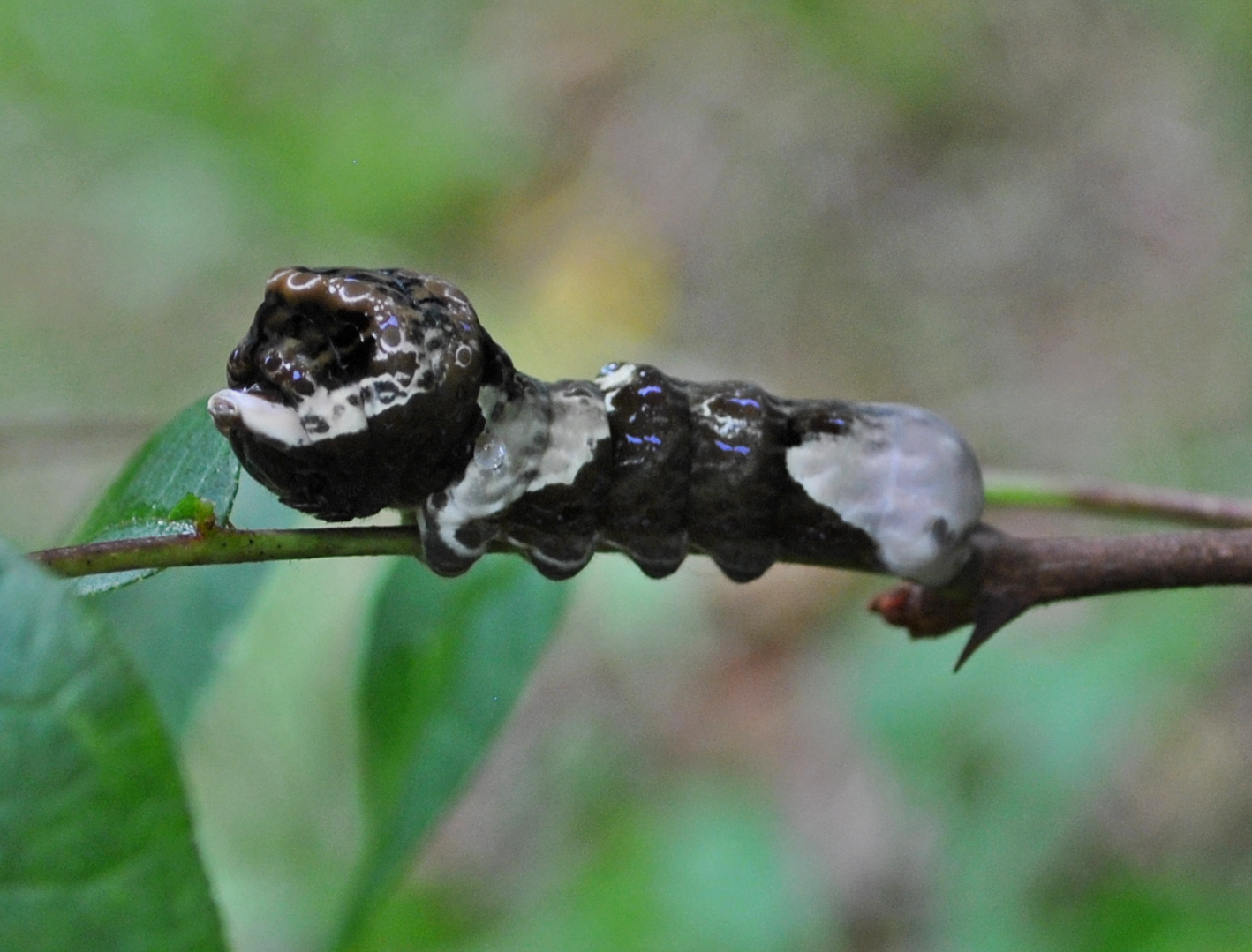 Osceola Bedrock Glades State Natural Area (SNA #386, Polk Co.) On Prickly-Ash (Zanthoxylum americanum)